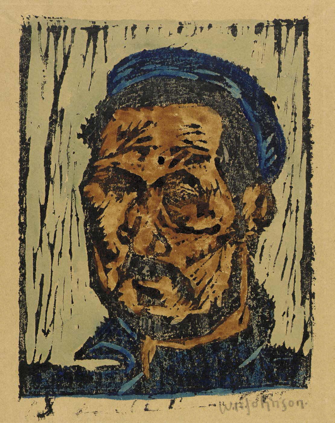 Ethnic\African-American